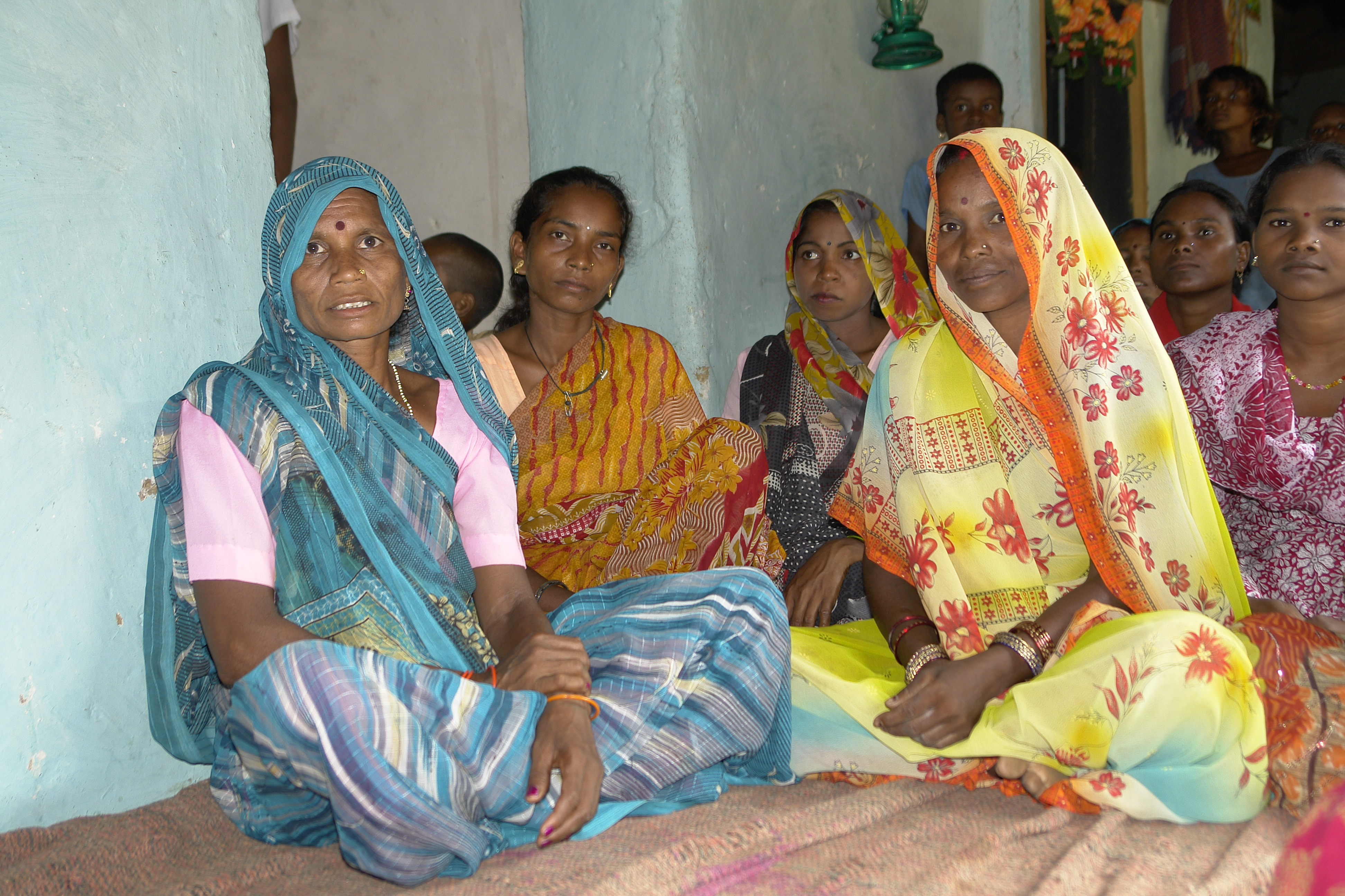 Women in a tribal village (Gondi tribe), Umaria district, India.